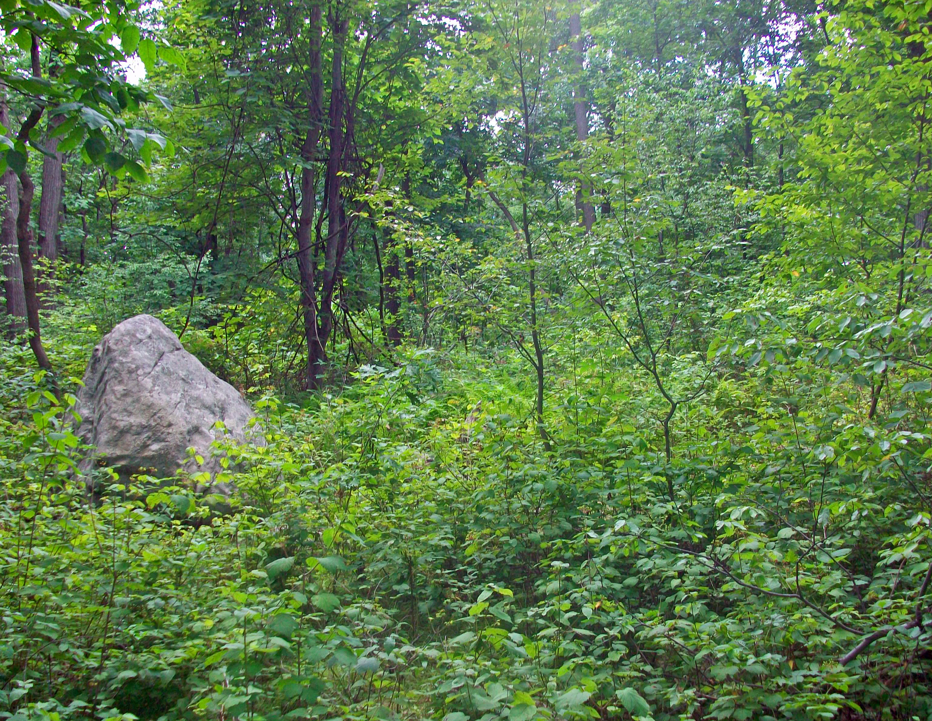 Highest elevation of Morris County, NJ, USA, in Mahlon Dickerson Reservation, Jefferson, at 1,395 feet (425 m) above sea level